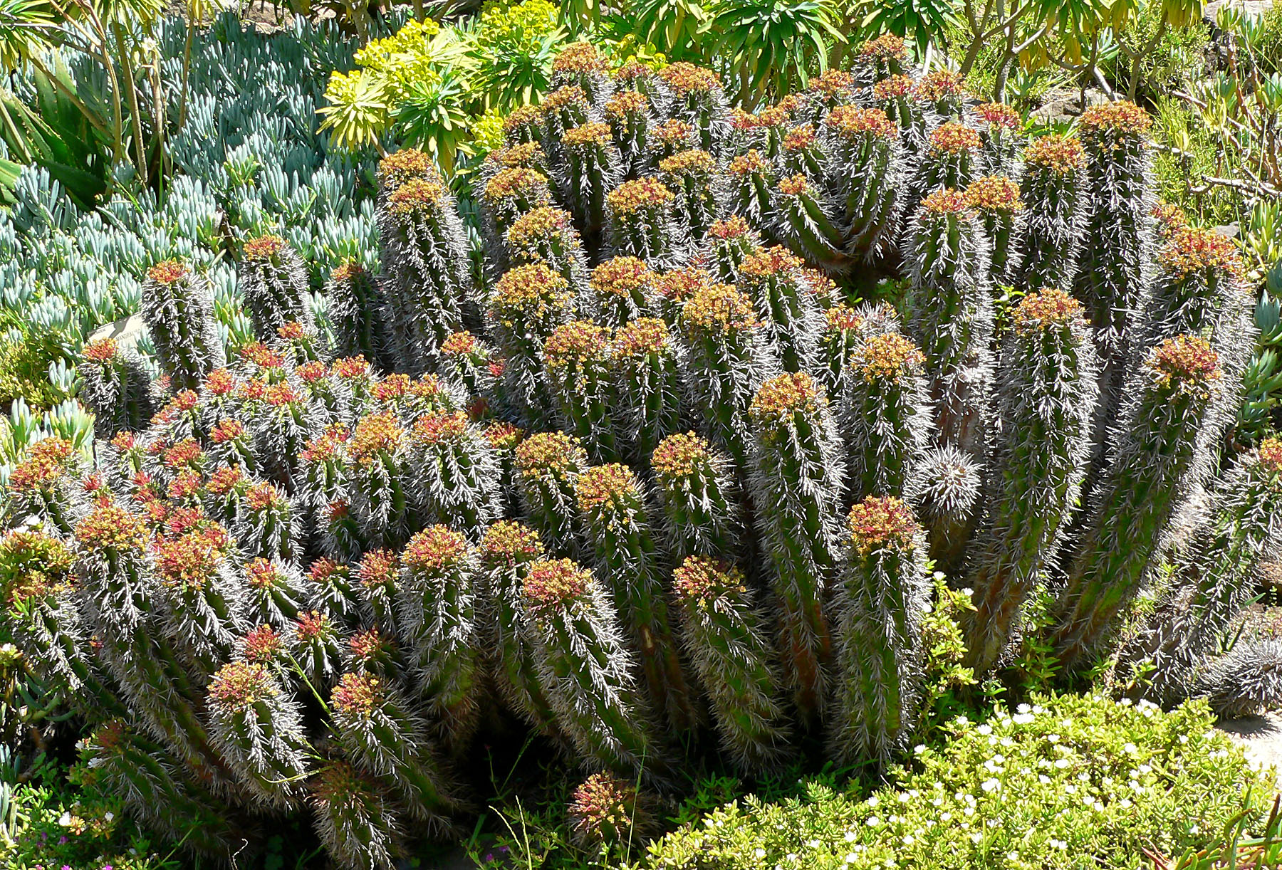 Euphorbia horrida at the University of California Botanical Garden, Berkeley, California